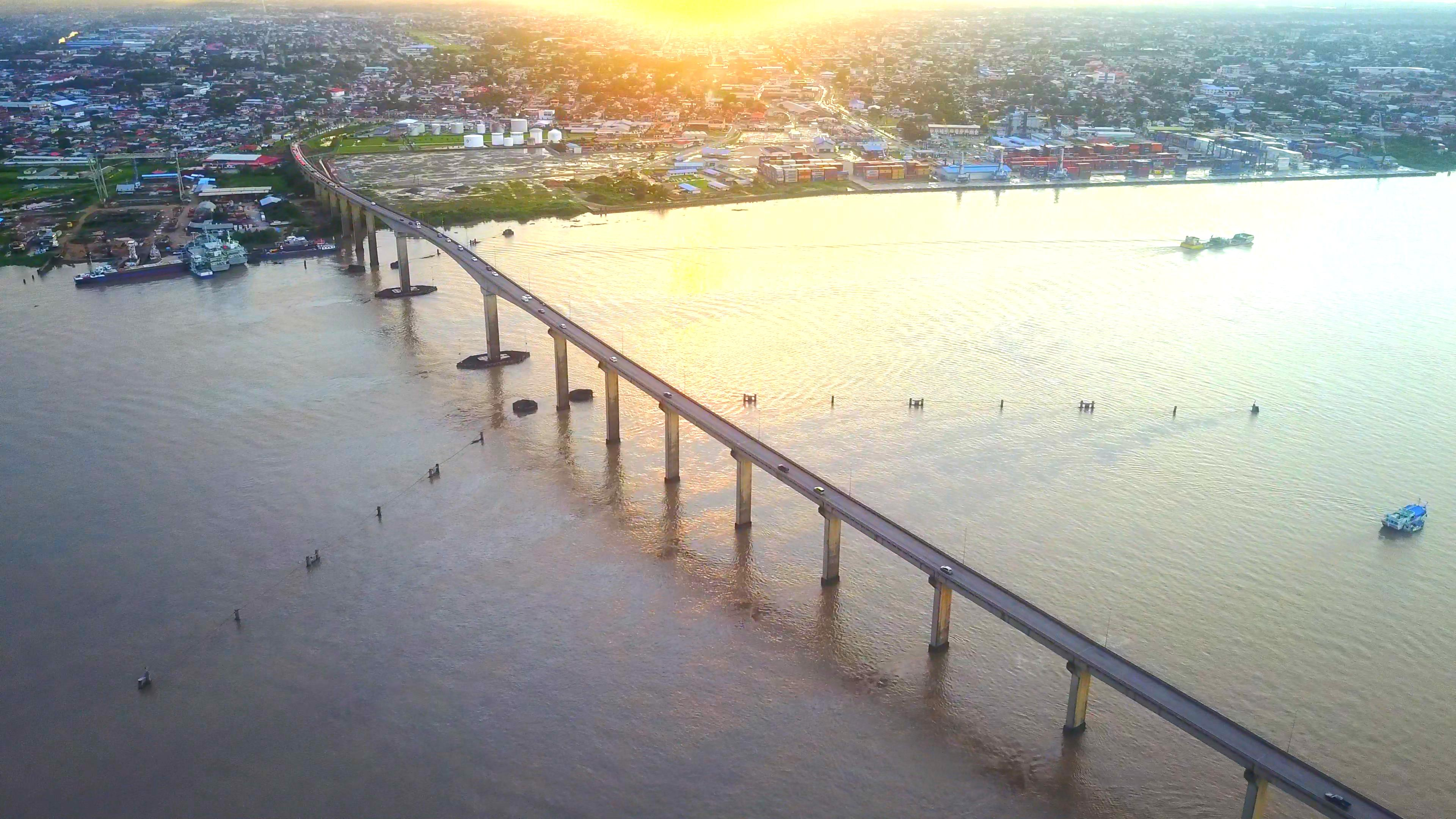 Jules Wijdenbosch Bridge